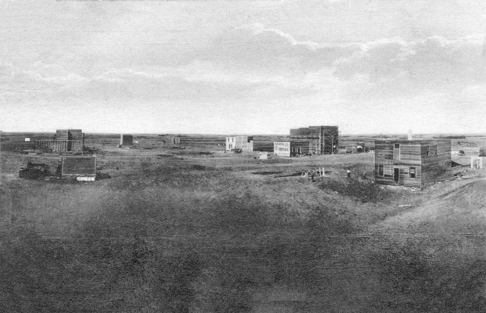 Castor, Alberta.